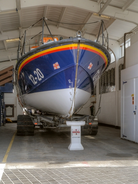 Photograph of the Mersey – class lifeboat RNLB Leonard Kent (ON 1177) inside the boathouse at Margate Lifeboat Station.